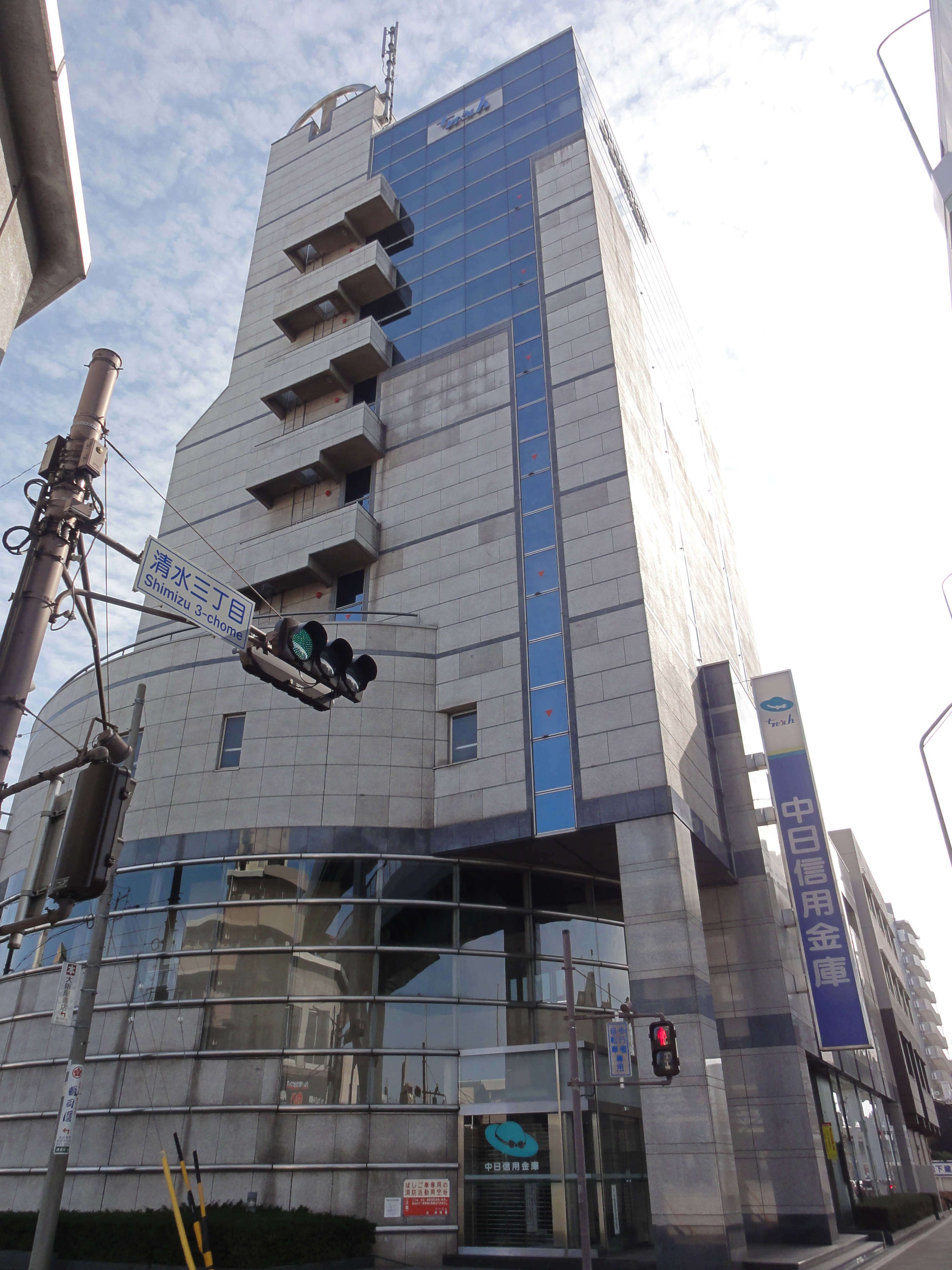 Chunichi shinkin bank(Head office),Aichi prefecture, Japan